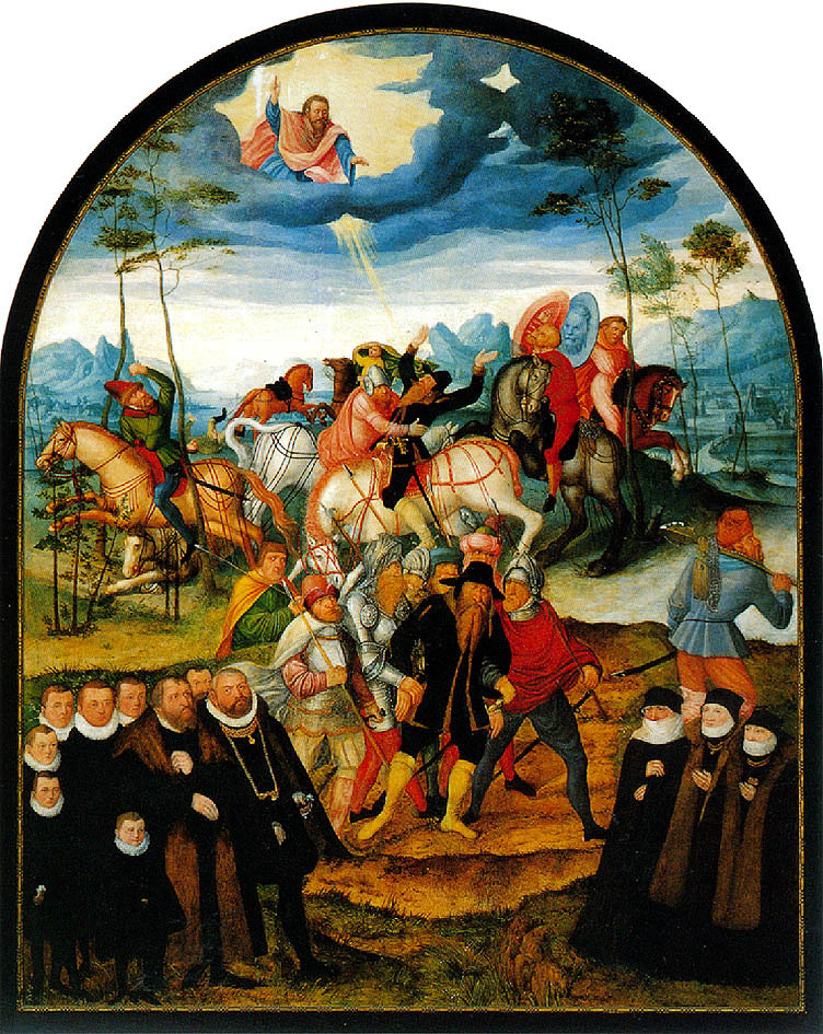 Augustin Cranch: The Blinding of St. Paul (Epitaph Oertel); Oil on Canvas, about 170 x 140 cm